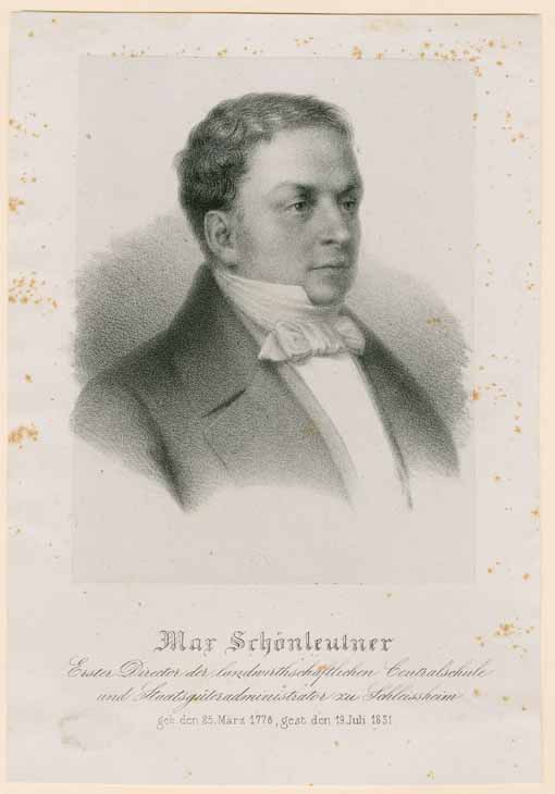 The bavarian agricultural scientist Max Schönleutner (1778-1831)